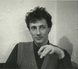 portrait of Greg Day during the 1980s